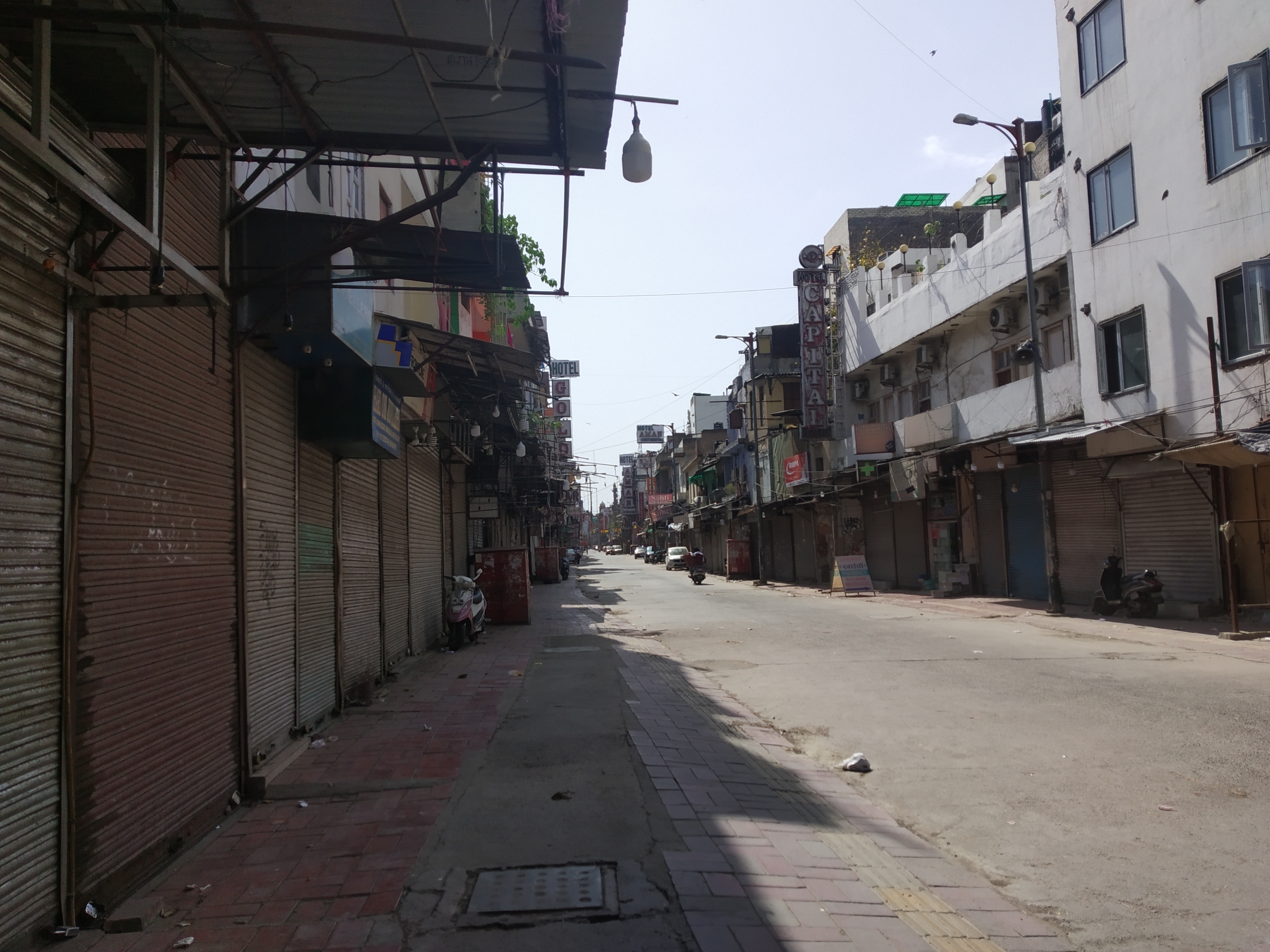 Empty streets and establishment closures during the COVID-19 pandemic in Delhi, location near New Delhi railway station, Paharganj side